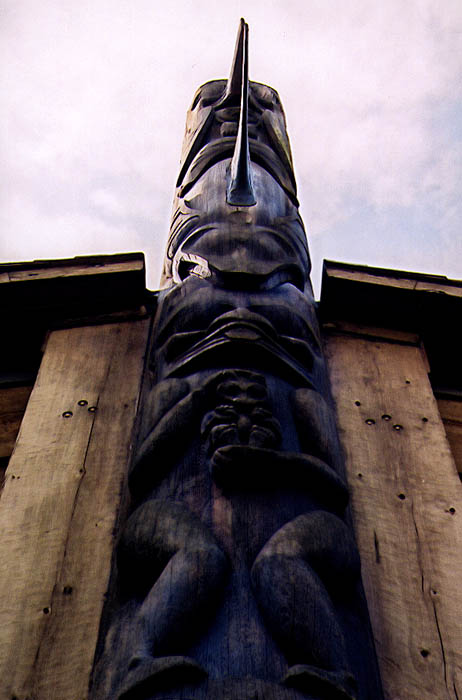 Wil Sayt Bakwhlgat totem pole. Carved by Norman Tait and erected June 28, 1985 by the Urban Native Indian Education Society, outside of what is now the Native Education College.